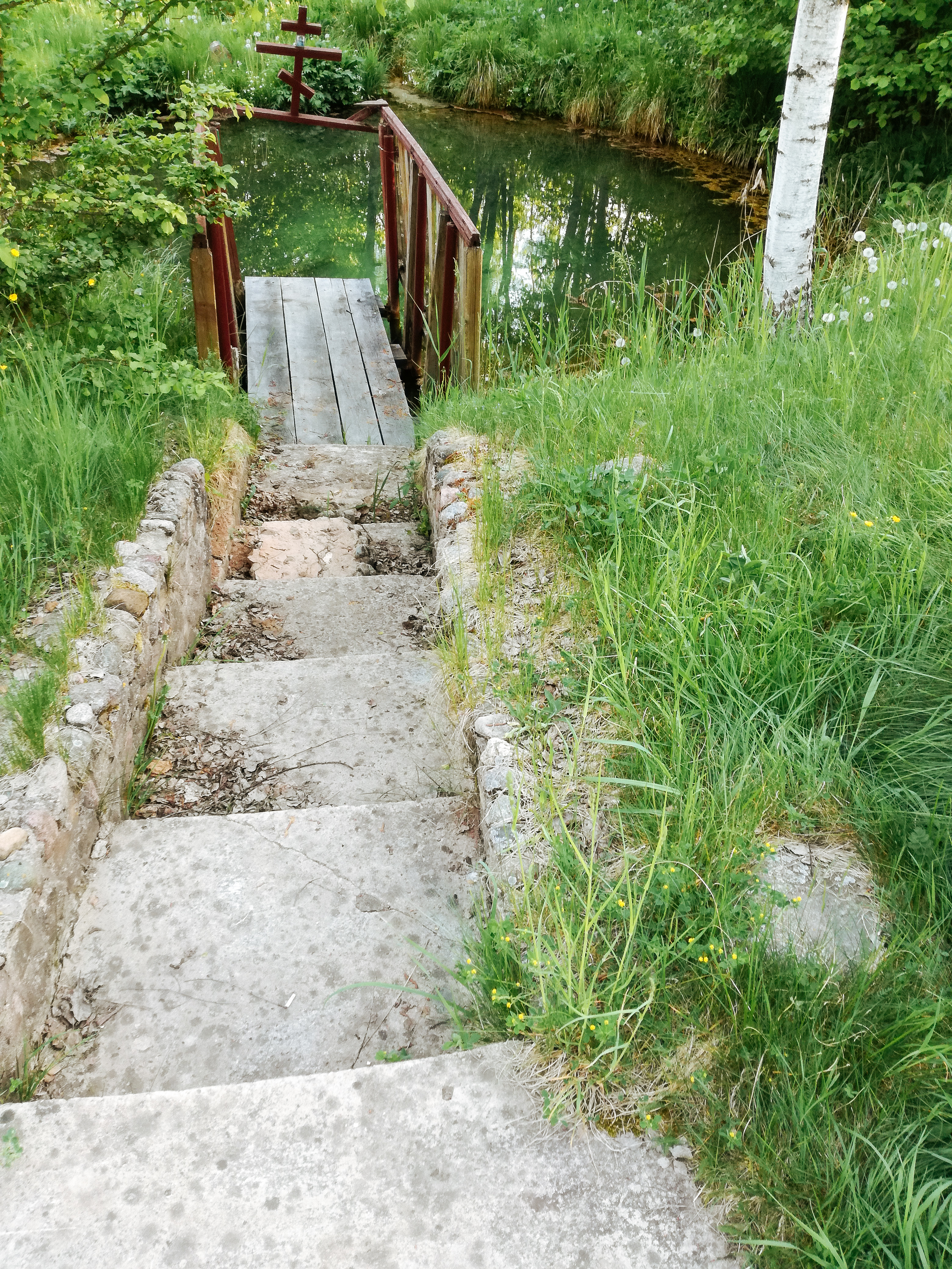 Gramiaki